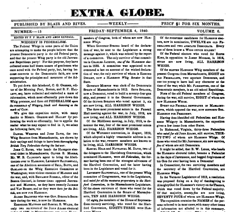 Front page of the September 4, 1840, edition of the Extra Globe, a newspaper in Washington, D.C., in the United States. Founded by supporters of President Andrew Jackson and the Democratic Party, it was edited by Jackson's nephew, Francis Preston Blair. Amos Kendall, former U.S. Postmaster General and the most important member of Jackson's "kitchen cabinet", frequently wrote for the newspaper after leaving office in May 1840 in order to boost President Martin Van Buren's chances for re-election.